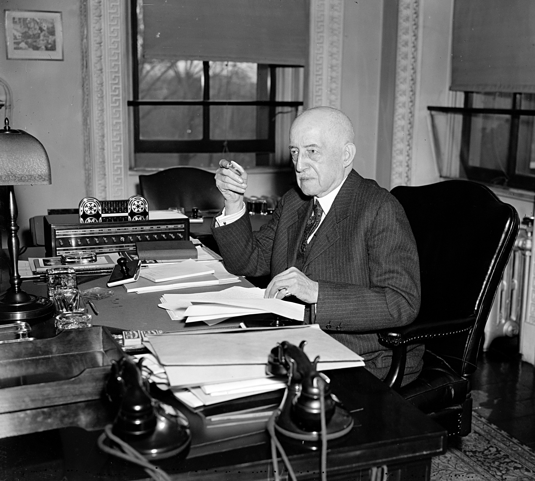 R. Walton Moore, US Representative from Virginia and Assistant Secretary of State